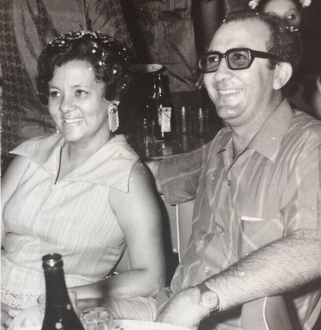 Luiz Ramalho and wife in the 70's